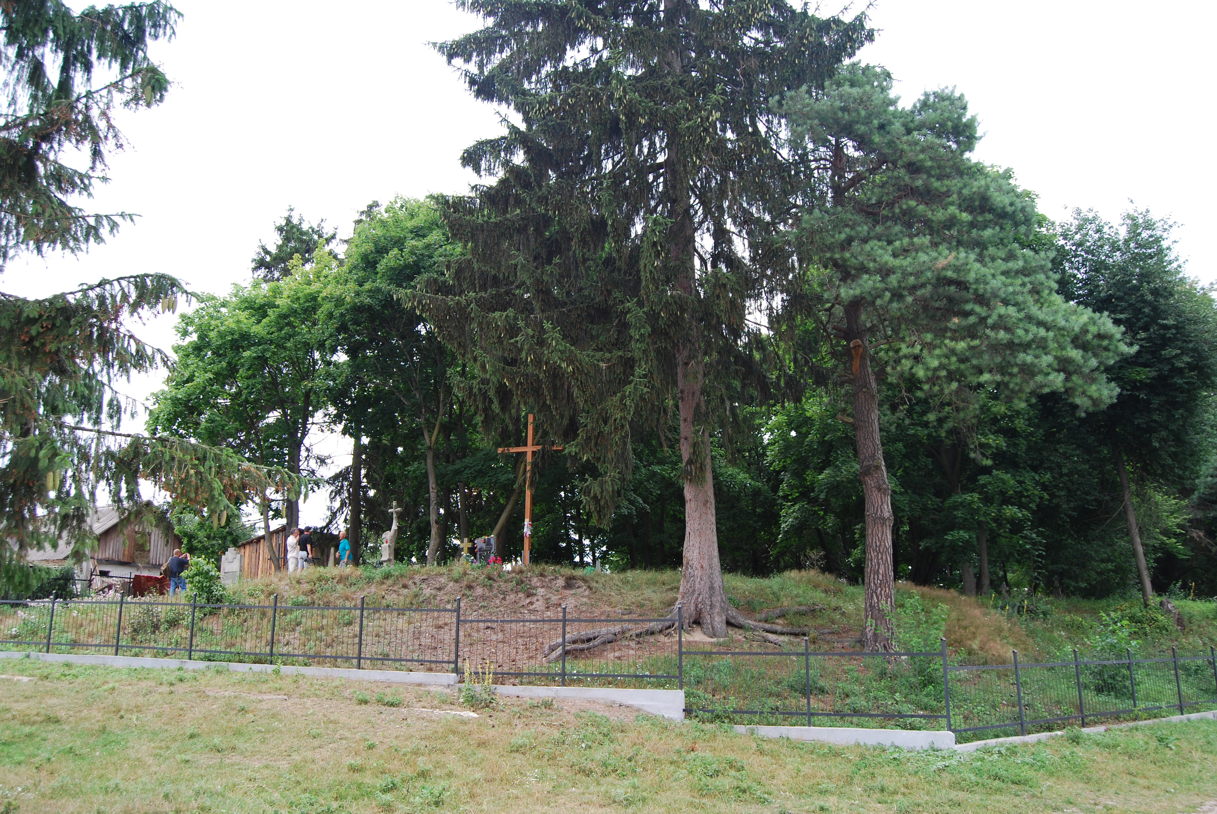 Catholik cemetery in Derażne. The cross and memorial plaque erected in 2011